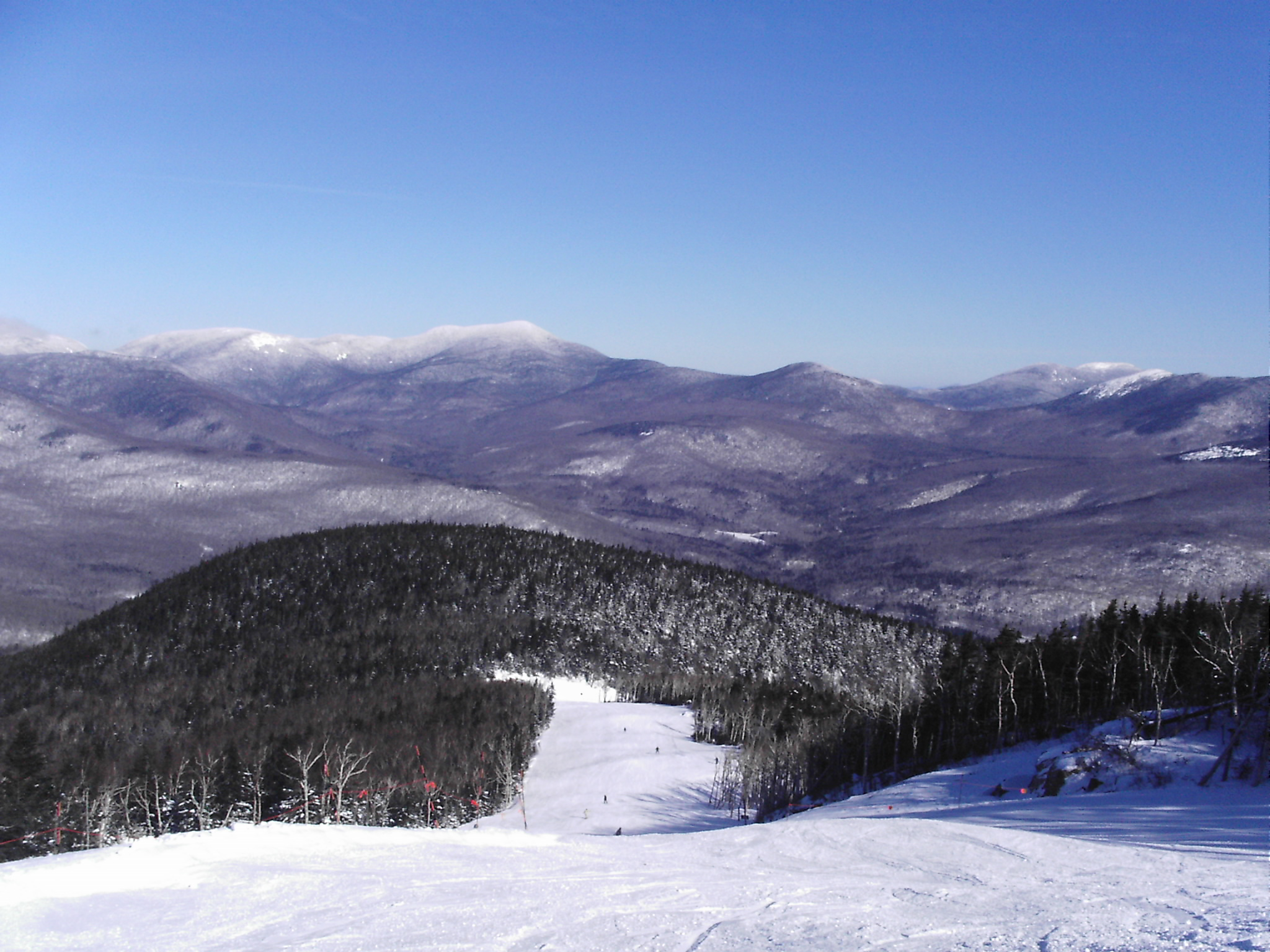 The beautiful Sunday River Ski Resort in Maine